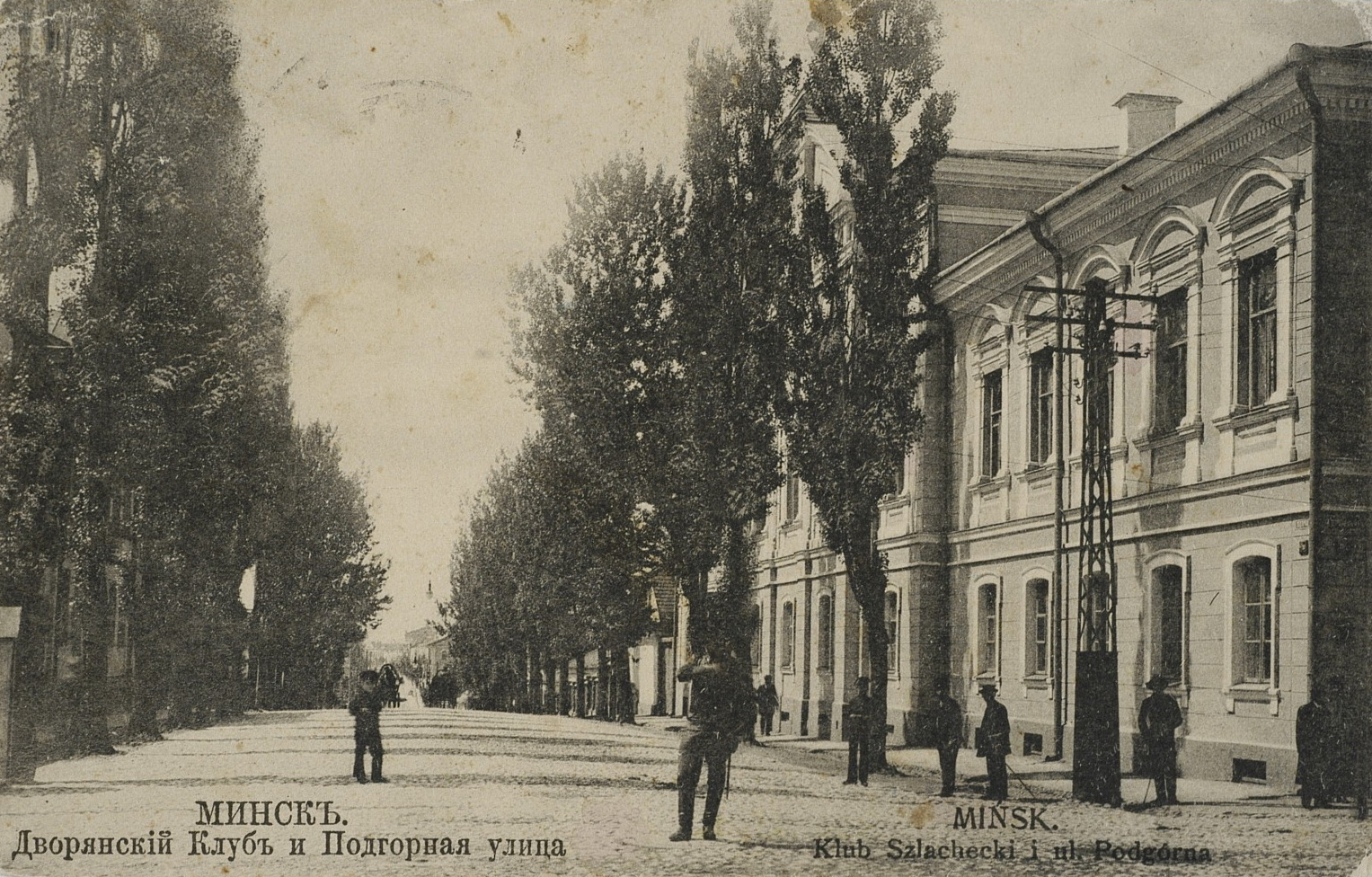 House of nobility club in Minsk (Russian empire), foto before 1914 AD